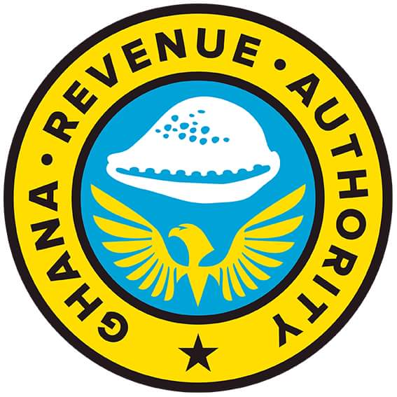 Ghana Revenue Authority logo (new)